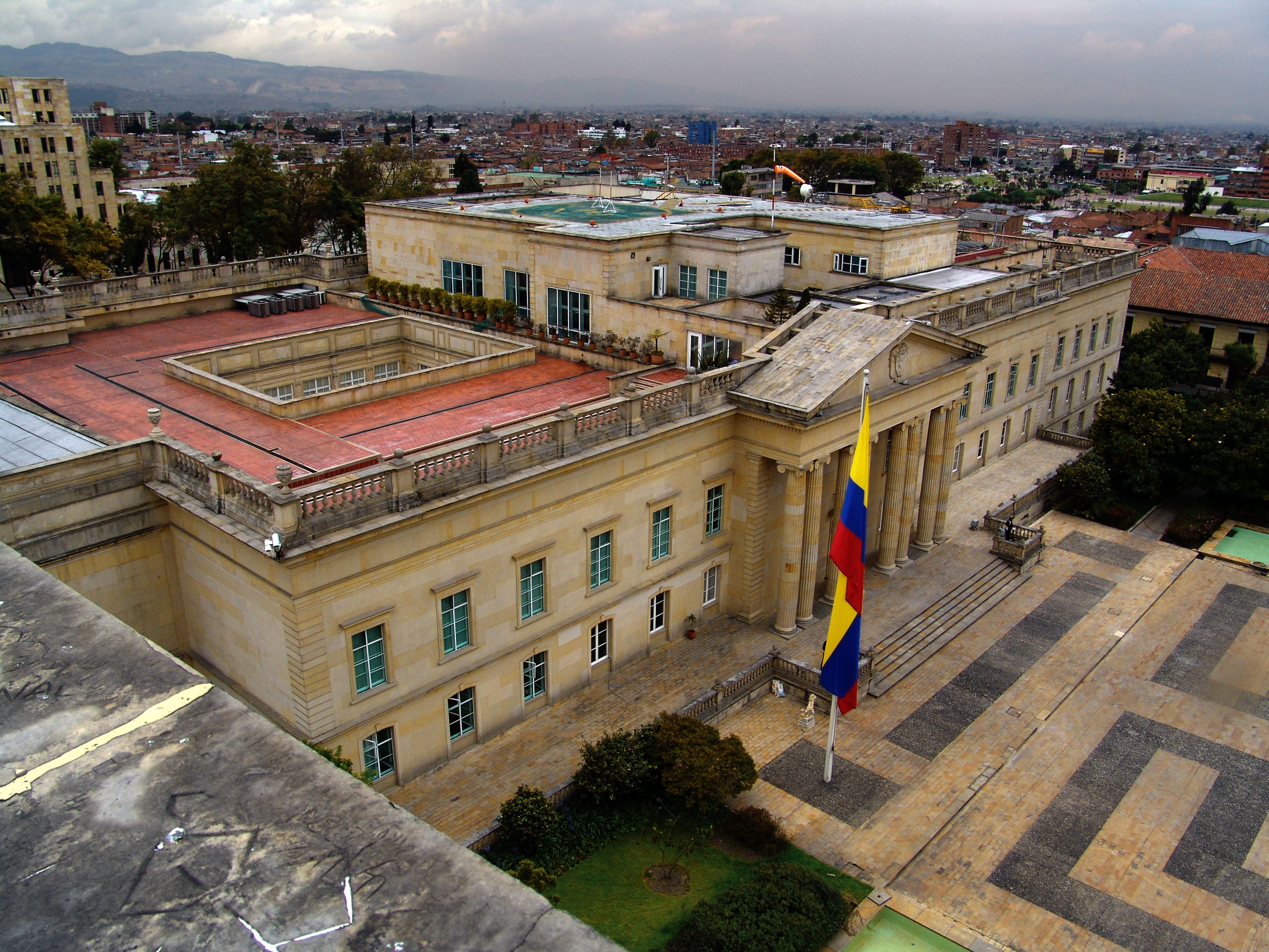 The President Of Colombia House